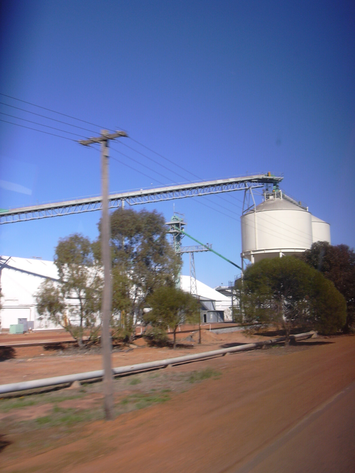 wheat silo at Quairading, Western Australia